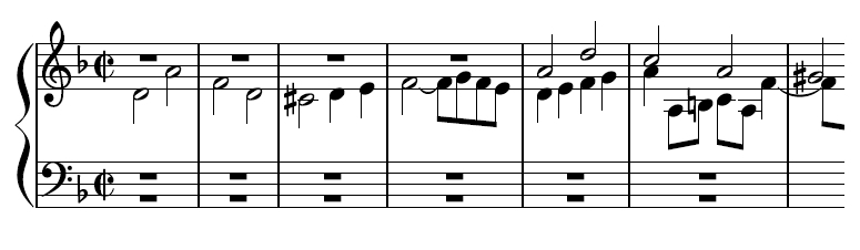 The first bars of "Contrapunctus 1" from "The Art of Fugue" BWV 1080 by Johann Sebastian Bach. Sheet music created with MuseScore software.